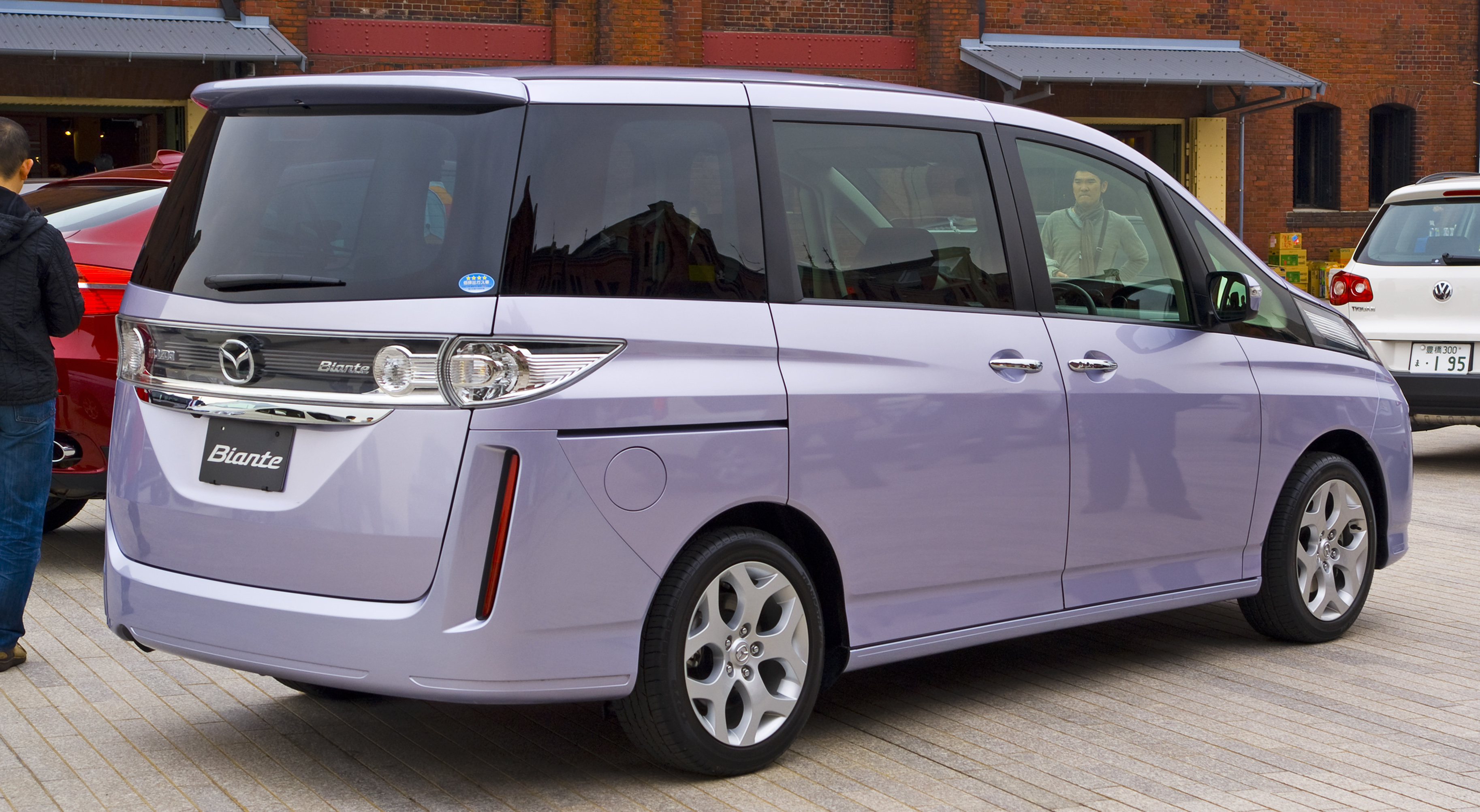 Mazda Biante photographed in Yokohama Red Brick Warehouse